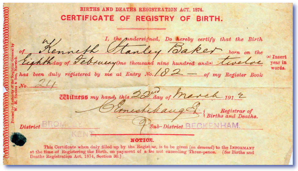 1967 birth certificate for john Scott of Washington .state, U S A